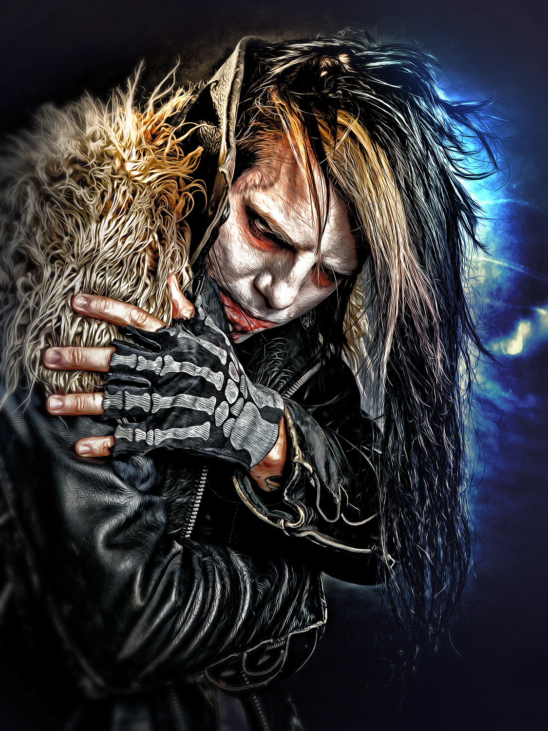 Argyle Goolsby with skeleton gloves